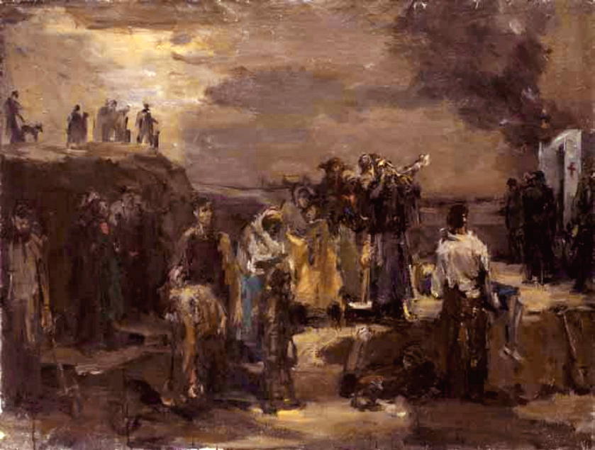 Felix Lembersky. Execution: Babi Yar, ca. 1944-52